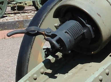 De Bange mechanism detail of French Canon de 155 long modèle 1877